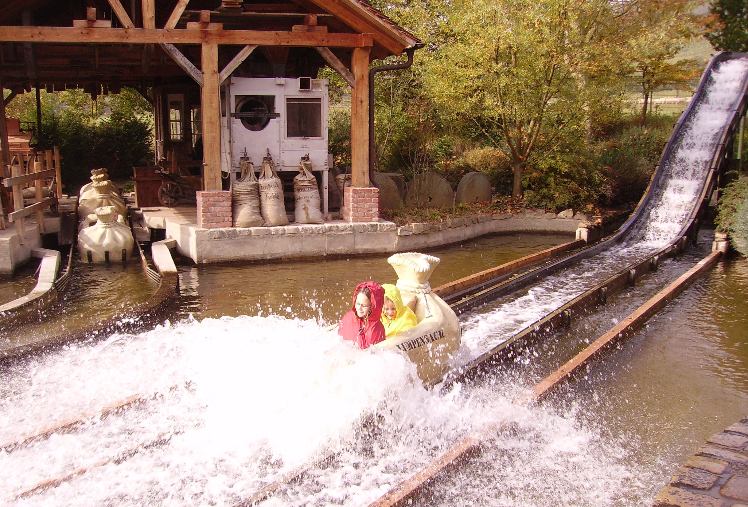 leisure park Tripsdrill near Cleebronn in southern Germany